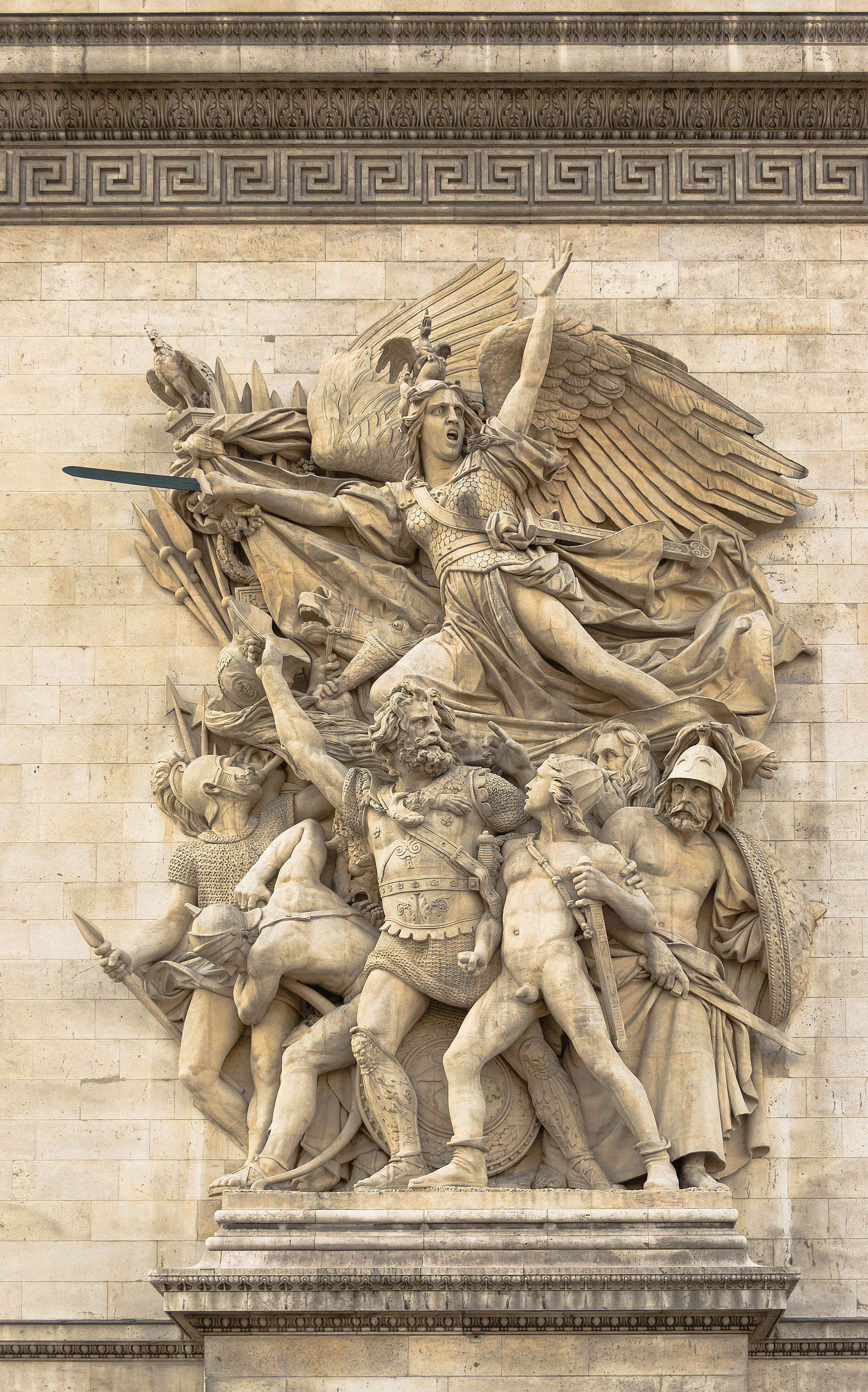 "The Departure of the volunteers of 1792" (a.k.a. La Marseillaise), sculpture by François Rude, Arc de Triomphe de l'Etoile, Paris, France.